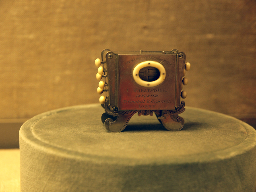 probably my favorite instrument in the collection of musical instruments, museum of fine arts, boston. made of nickle and silver, and made around 1830, in london, england, by charles wheatstone. this was one of the earliest commercially produced mouth organs or harmonicas. the player blows into the ivory rimmed, oval mouth hole and presses the tiny, ivory buttons on the sides to select individual notes References Symphonium by Charles W. Wheatstone, London, ca. 1829. Images from The Alan G. Bates Collection. National Music Museum, The University of South Dakota. "NMM 10877. Symphonium by Charles W. Wheatstone, London, ca. 1829. No. 18. Stamped: BY HIS MAJESTY'S LETTERS PATENT / C WHEATSTONE, / INVENTOR / 20, Conduit St. Regent St. / LONDON. ... Of the estimated 200 symphoniums made by Wheatstone, only a dozen have been preserved. ...", "The symphonium was the object of Charles W. Wheatstone's (1802-1875) British patent No. 5803, "A Certain Improvement or Certain Improvements in the Construction of Wind Musical Instruments,"awarded June 19, 1829. ..."